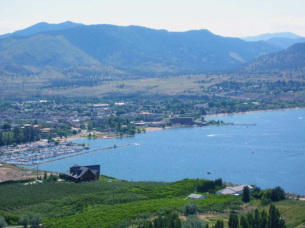 Penticton from Munson Mountain.